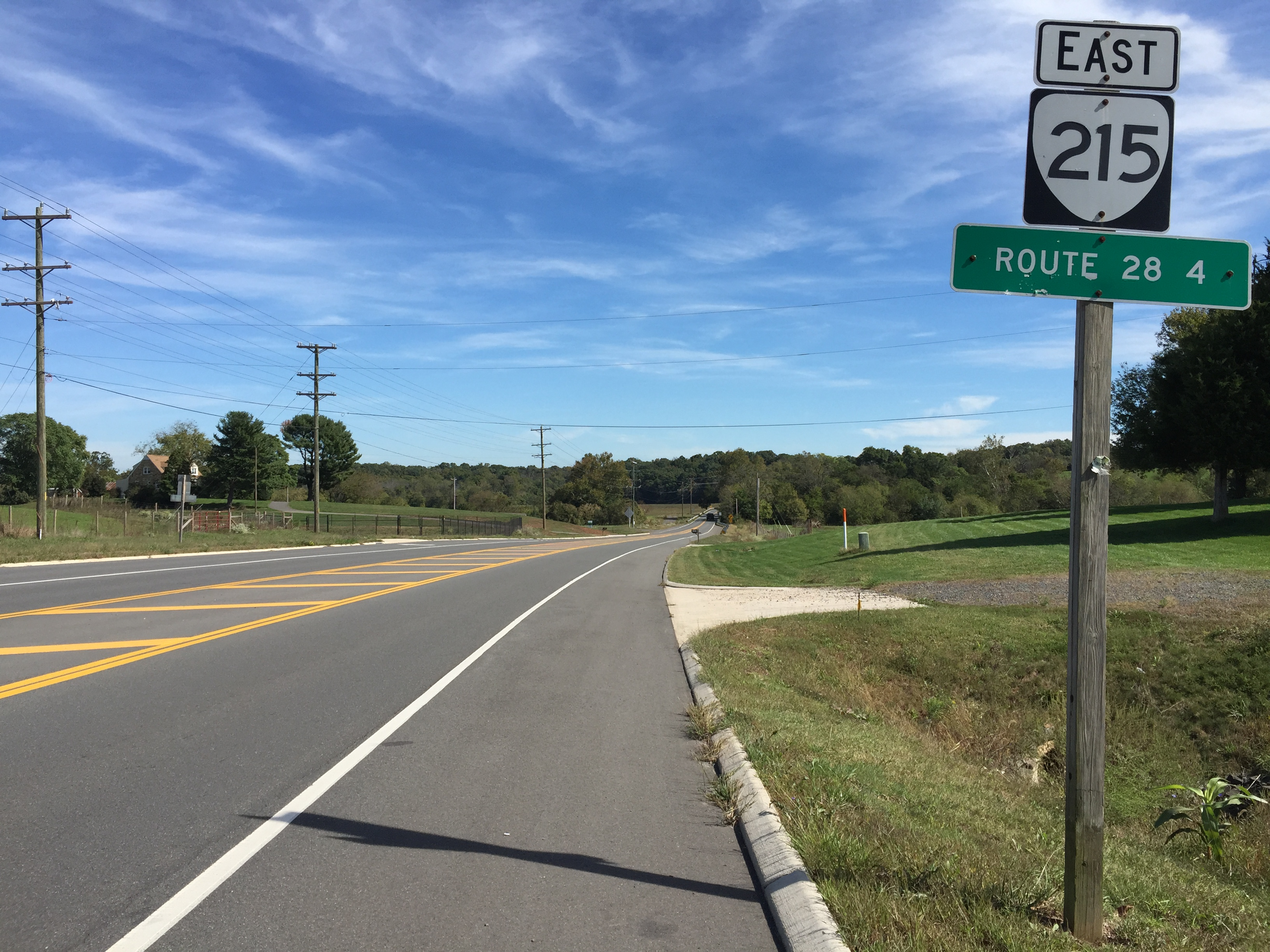 View east along Virginia State Route 215 (Vint Hill Road) at Rollins Ford Road in Greenwich, Prince William County, Virginia